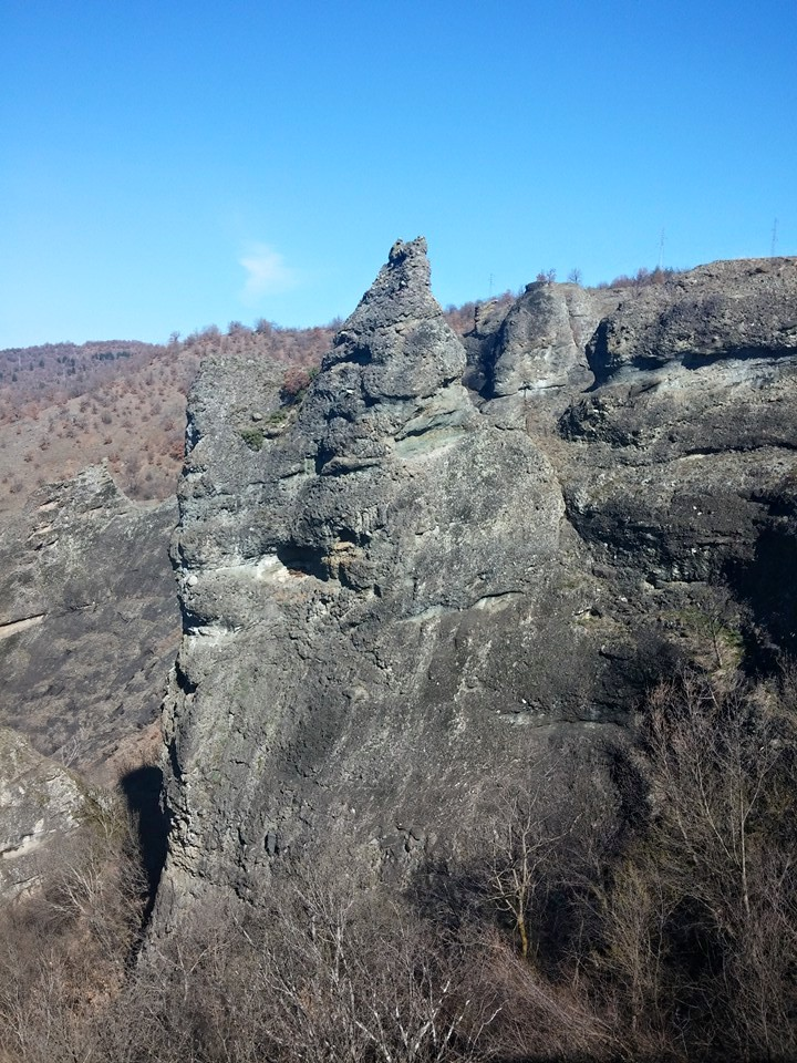 "Stones in the area of exceptional qualities"